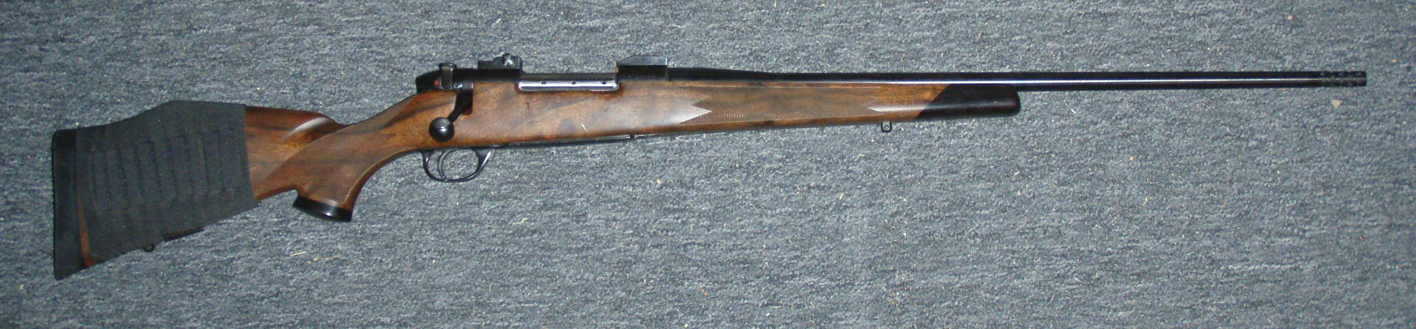 Weatherby Mark V rifle chambered in 7MM Weatherby caliber